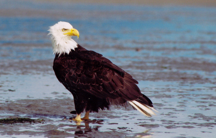 wild bald eagle with wet head from fishing